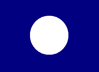 Union Army, I Corps - Army of the Potomac, 2nd Division Badge